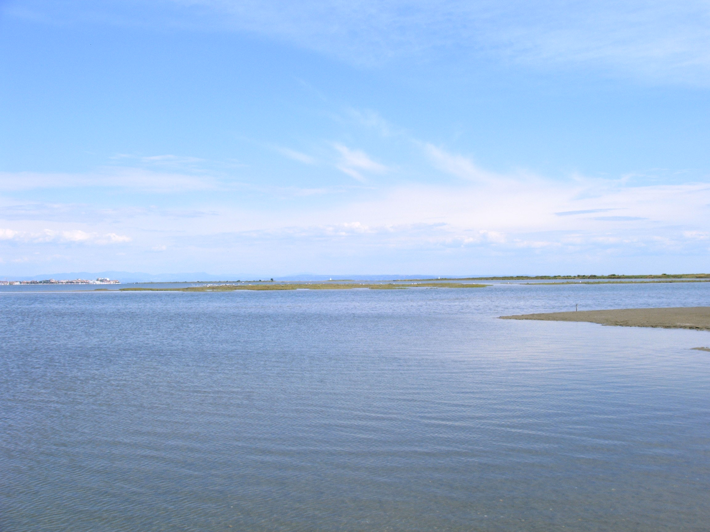 Lagune of Grado